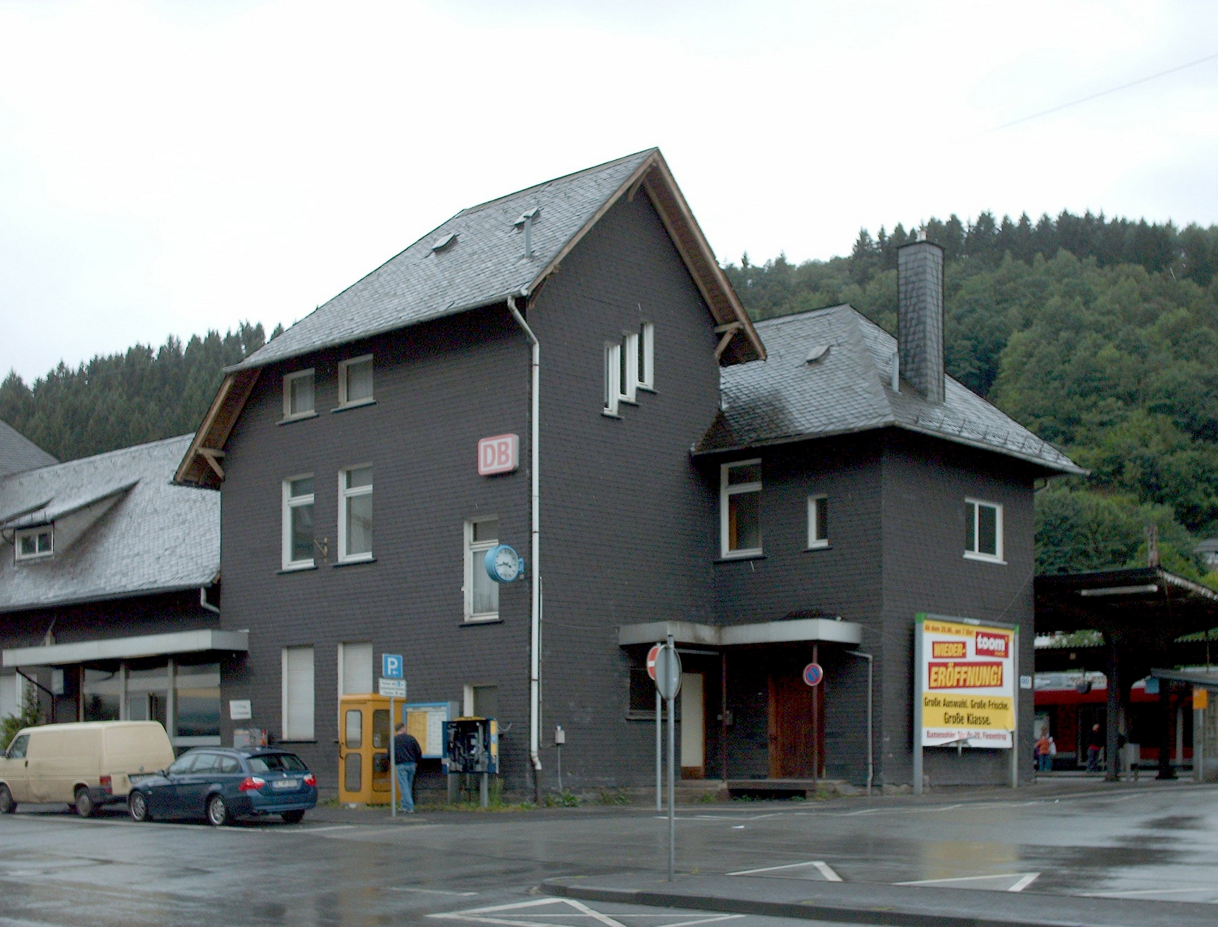 Former station building, Finnentrop, Germany check usage